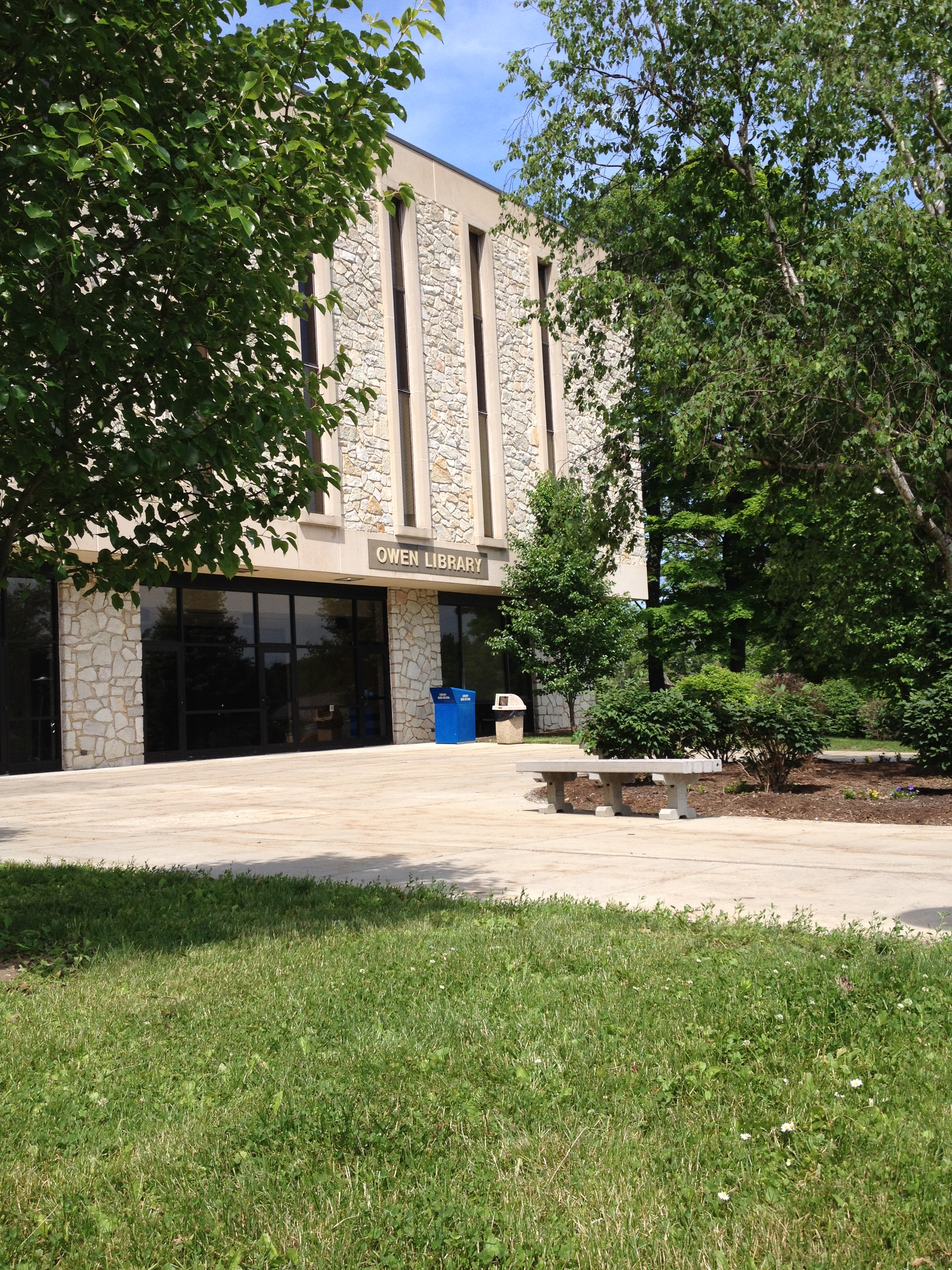 View from outside the ground floor of Pitt Johnstown's Owen Library on a sunny summer day.